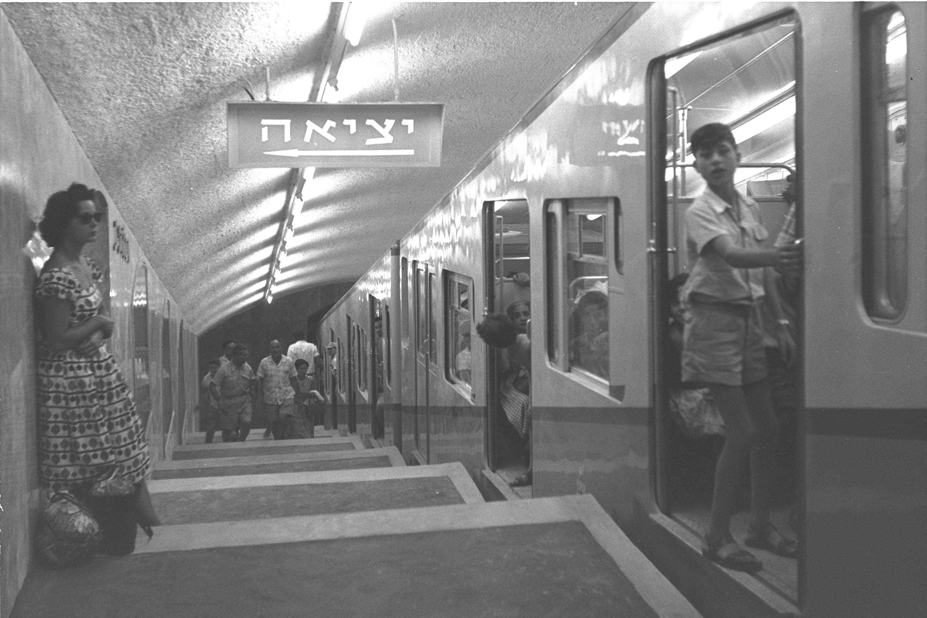 Carmelit, Israel's first underground subway, which opened in Haifa, linking lower town with Carmel.